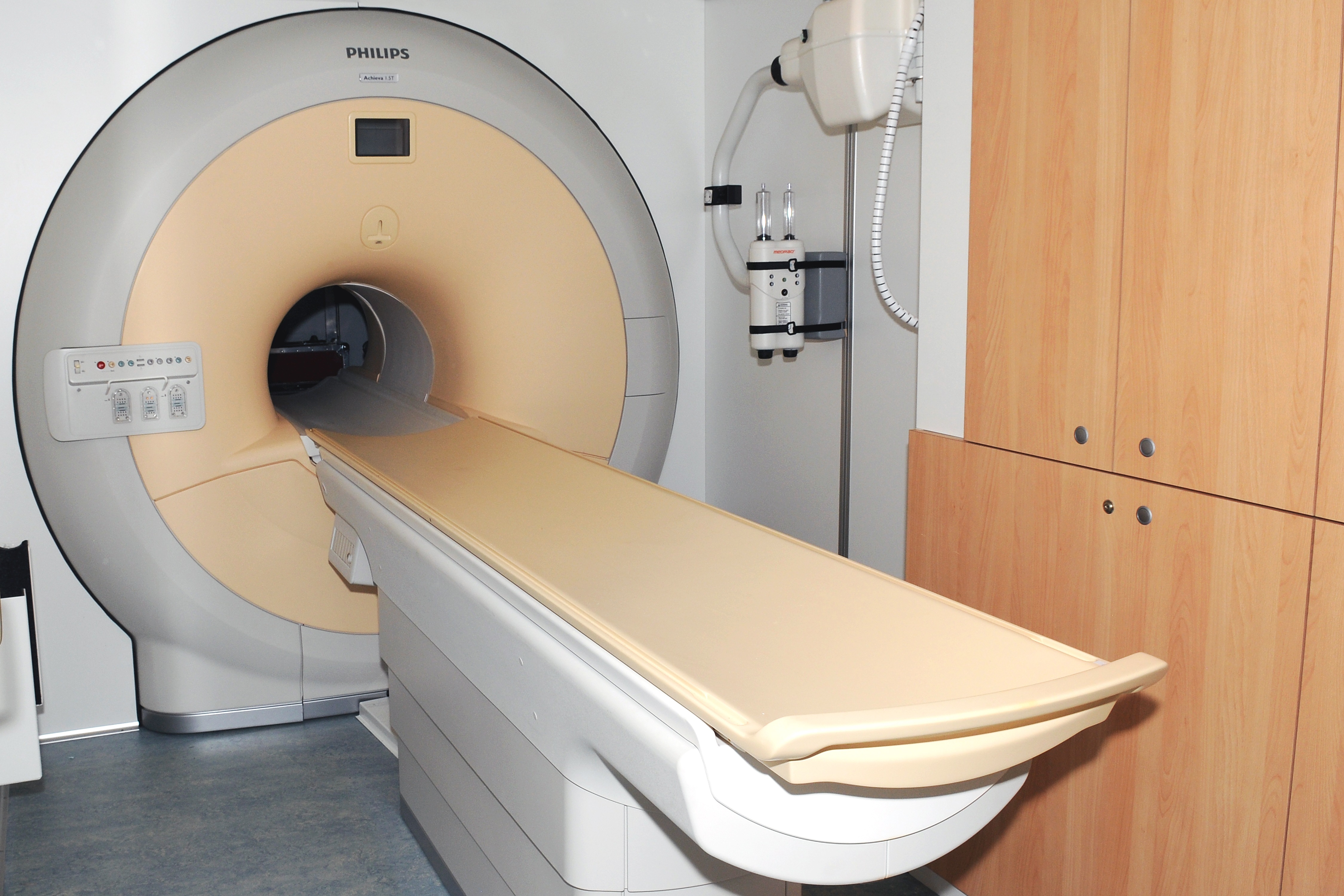 CAMP BASTION, Afghanistan (Oct. 5, 2011) An MRI machine is set up at the Role 3 Medical Facility at Joint Operating Base, Bastion, Afghanistan. (Royal Air Force photo by Sgt. Mitch Moore/Released)